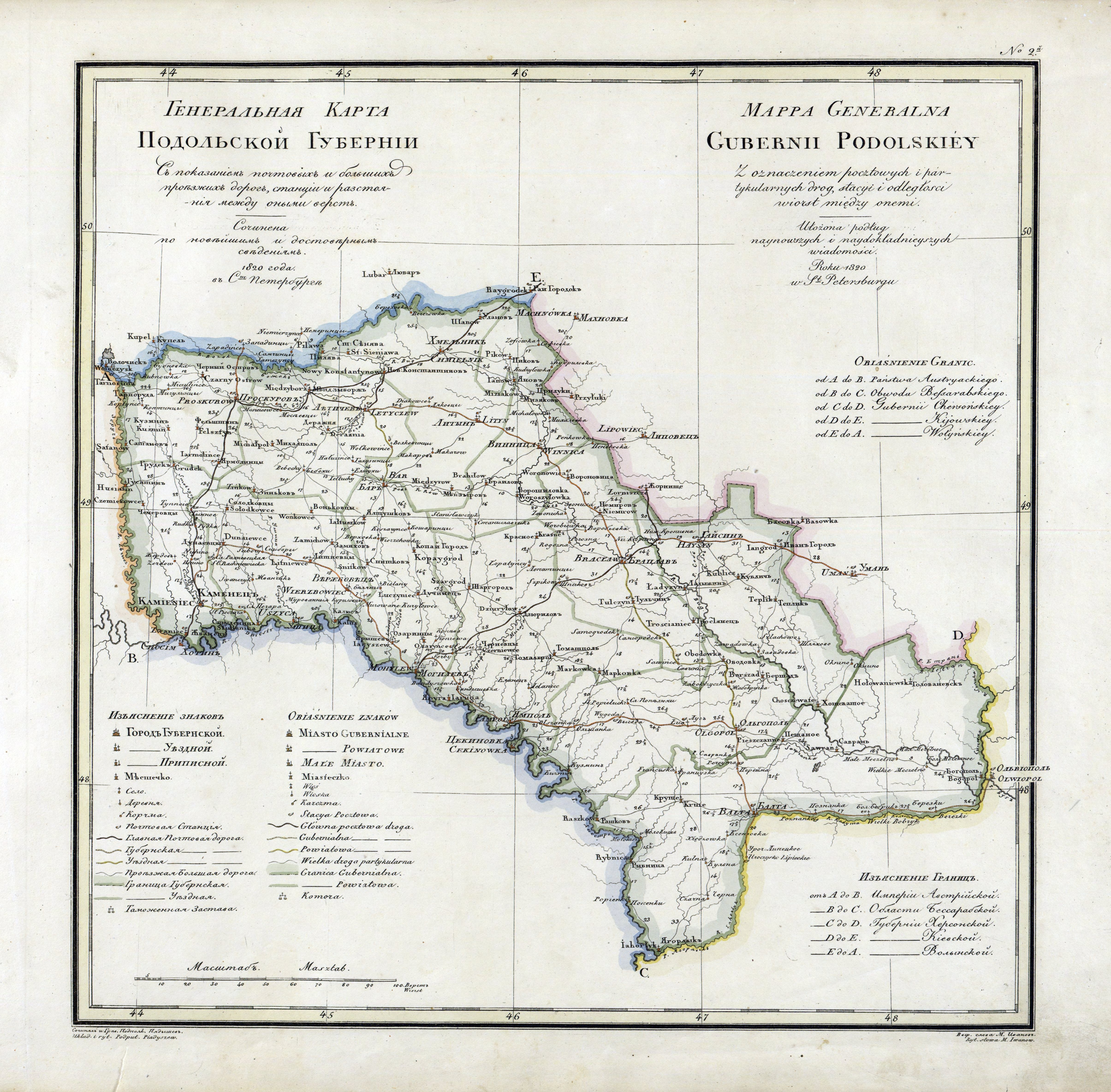 Podolia governorate